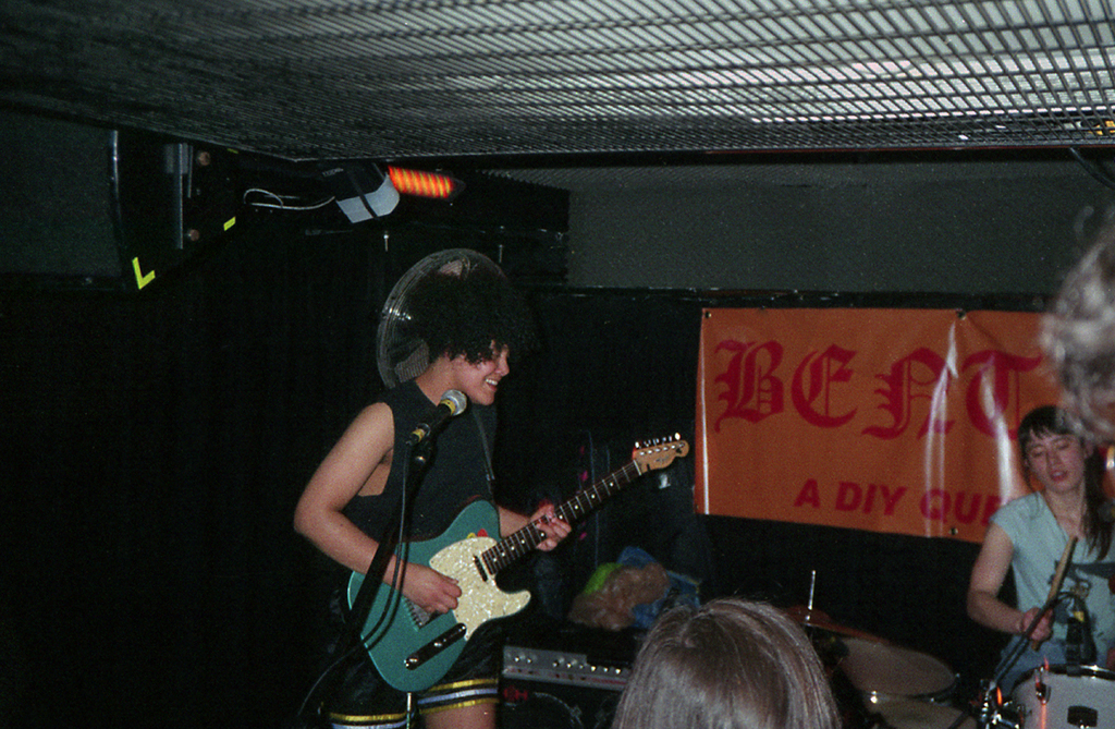 Trash Kit performing at Bent Fest 2016, Power Lunches, Dalston